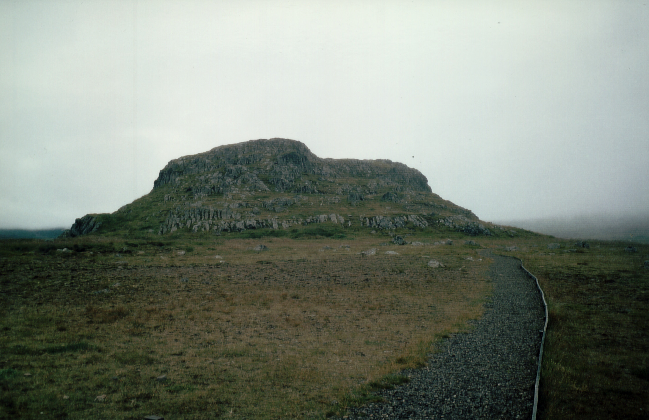 Álfaborg, the castle of the fairies near Borgarfjörður